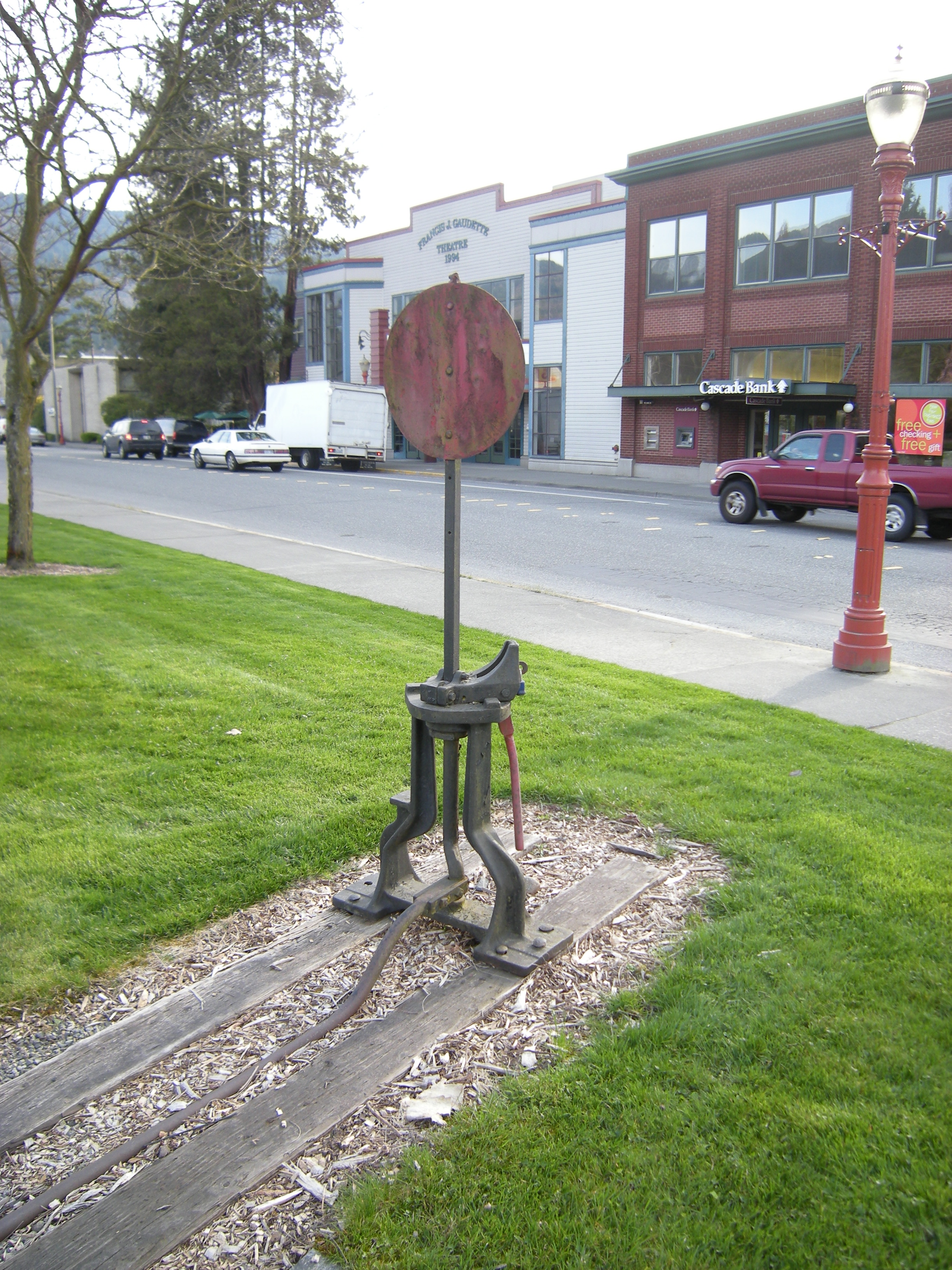 Manually operated railway switch, downtown Issaquah, Washington.